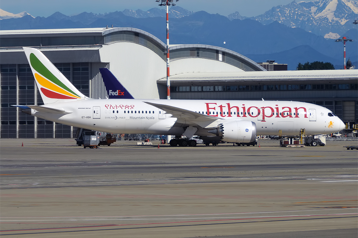 Ethiopian Airlines, ET-ASH, Boeing 787-8 Dreamliner